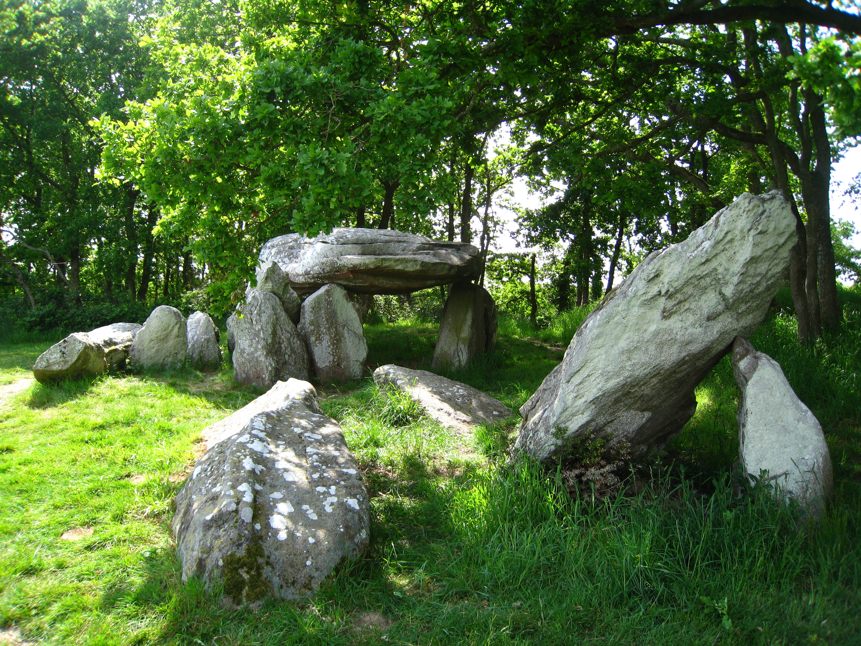 Dolmen de la Barbière, Crossac, Loire-Atlantique, France.